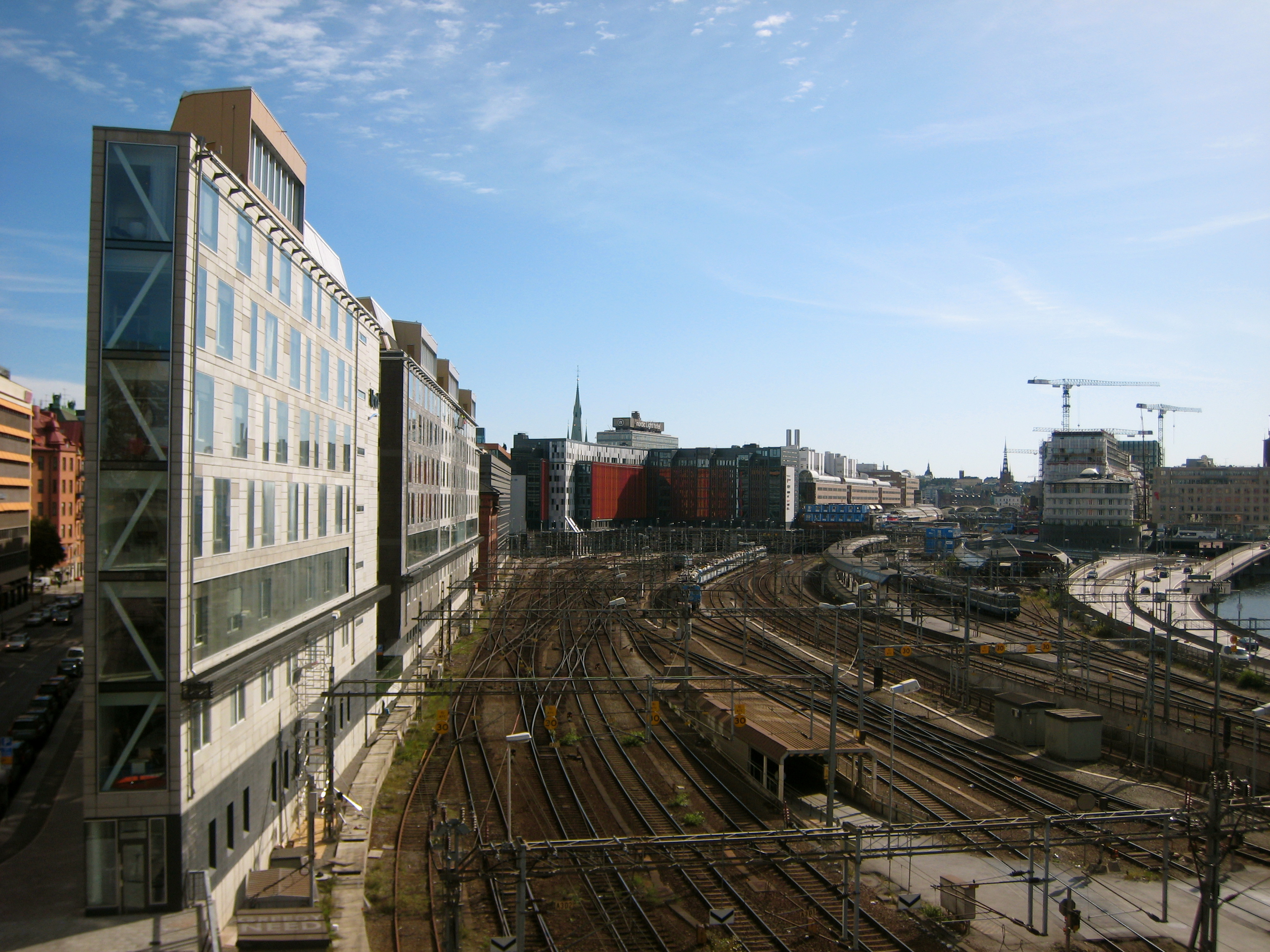 View from Barnhusbron (south)